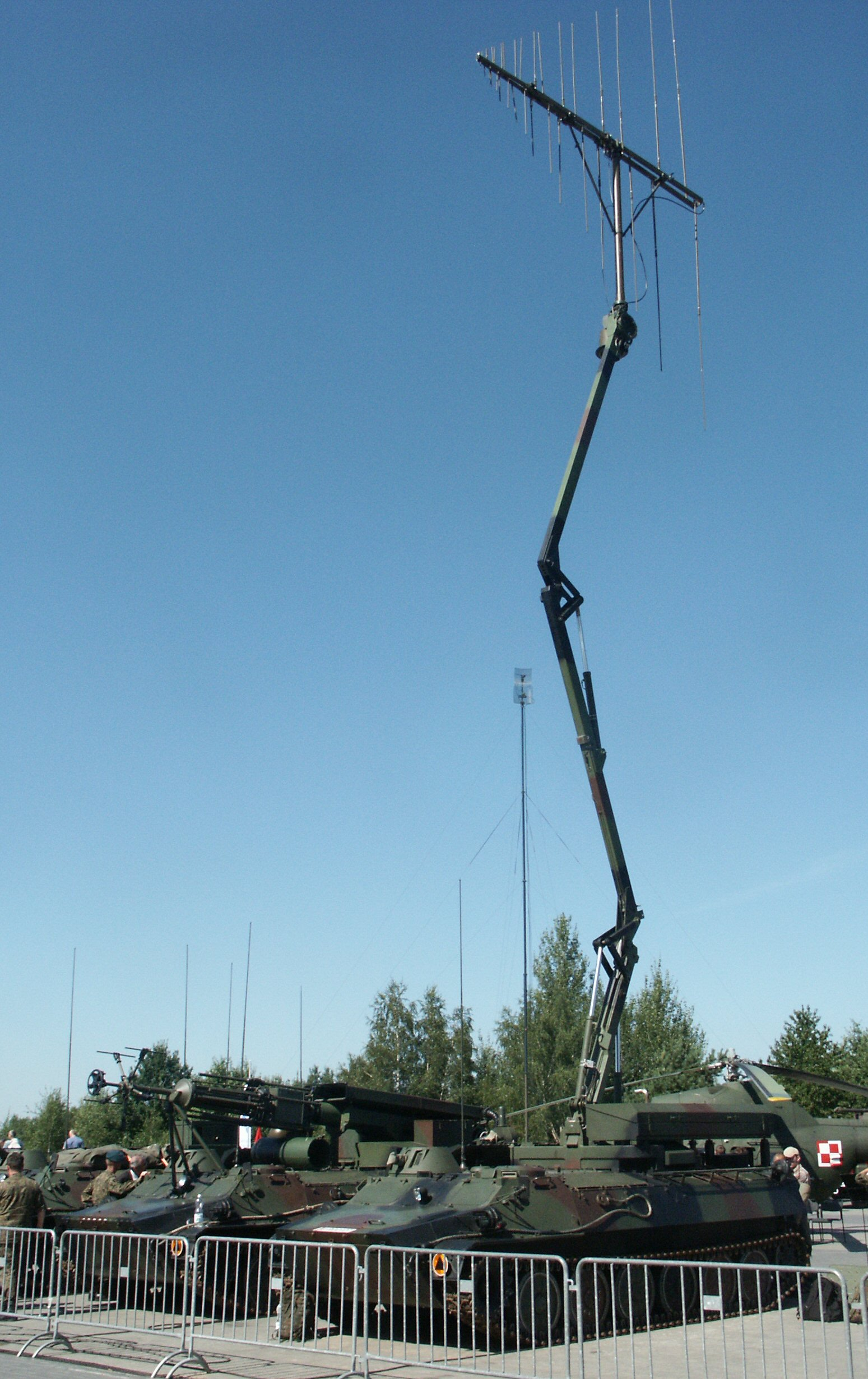 Two MTLB vehicles of Polish Electronic Support Measure (ESM) and jamming system Przebiśnieg.